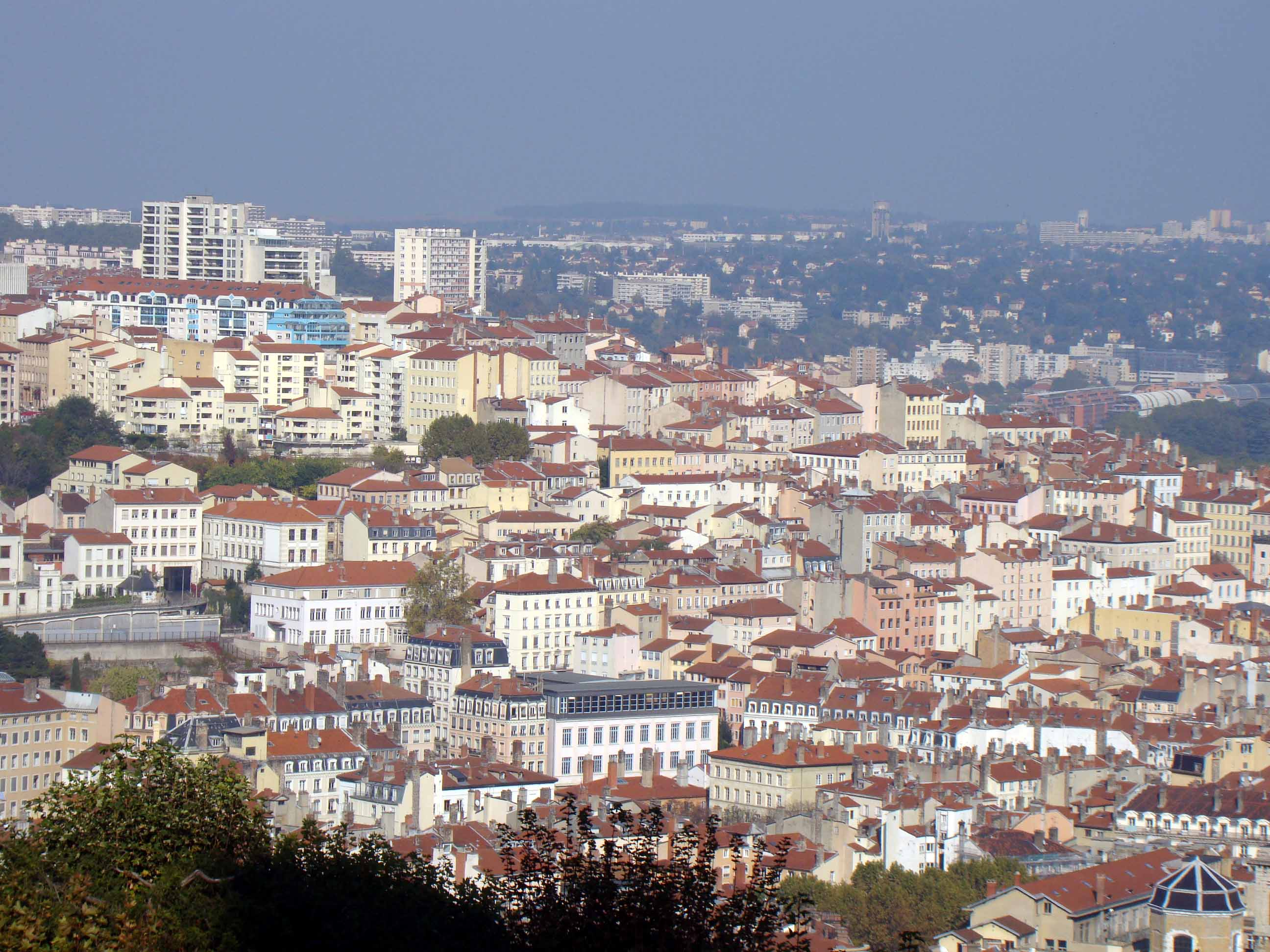 Lyon seen from the court yard of Notre-Dame de Fourvière